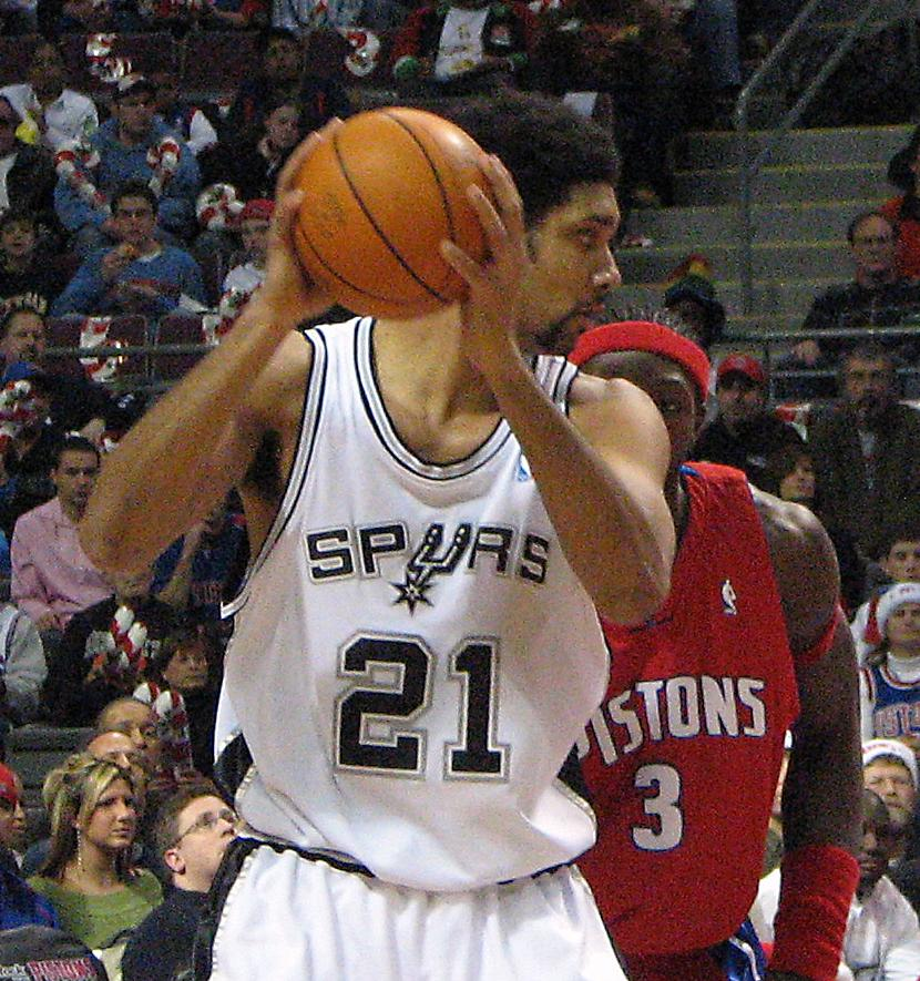 Tim Duncan (left) backs down Ben Wallace of the Pistons in 2005.